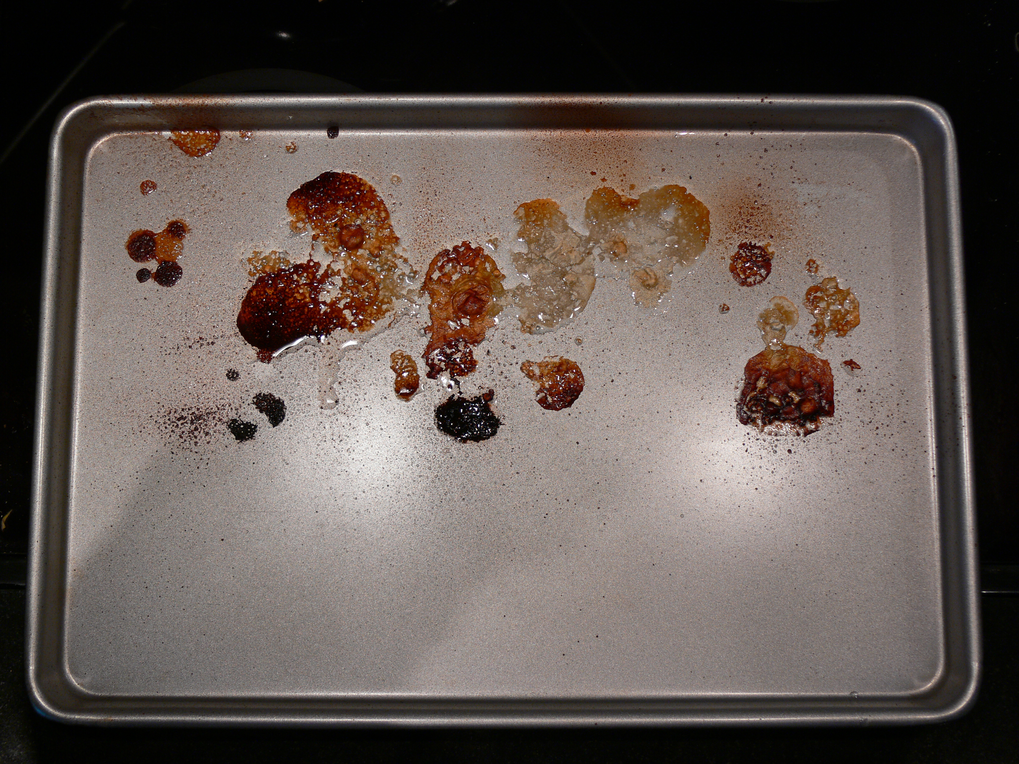 Food art: After cooking, this oven tray reminded me of a Jackson Pollock painting.